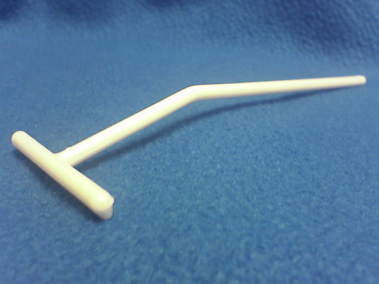 Bacteria spreader made of plastic